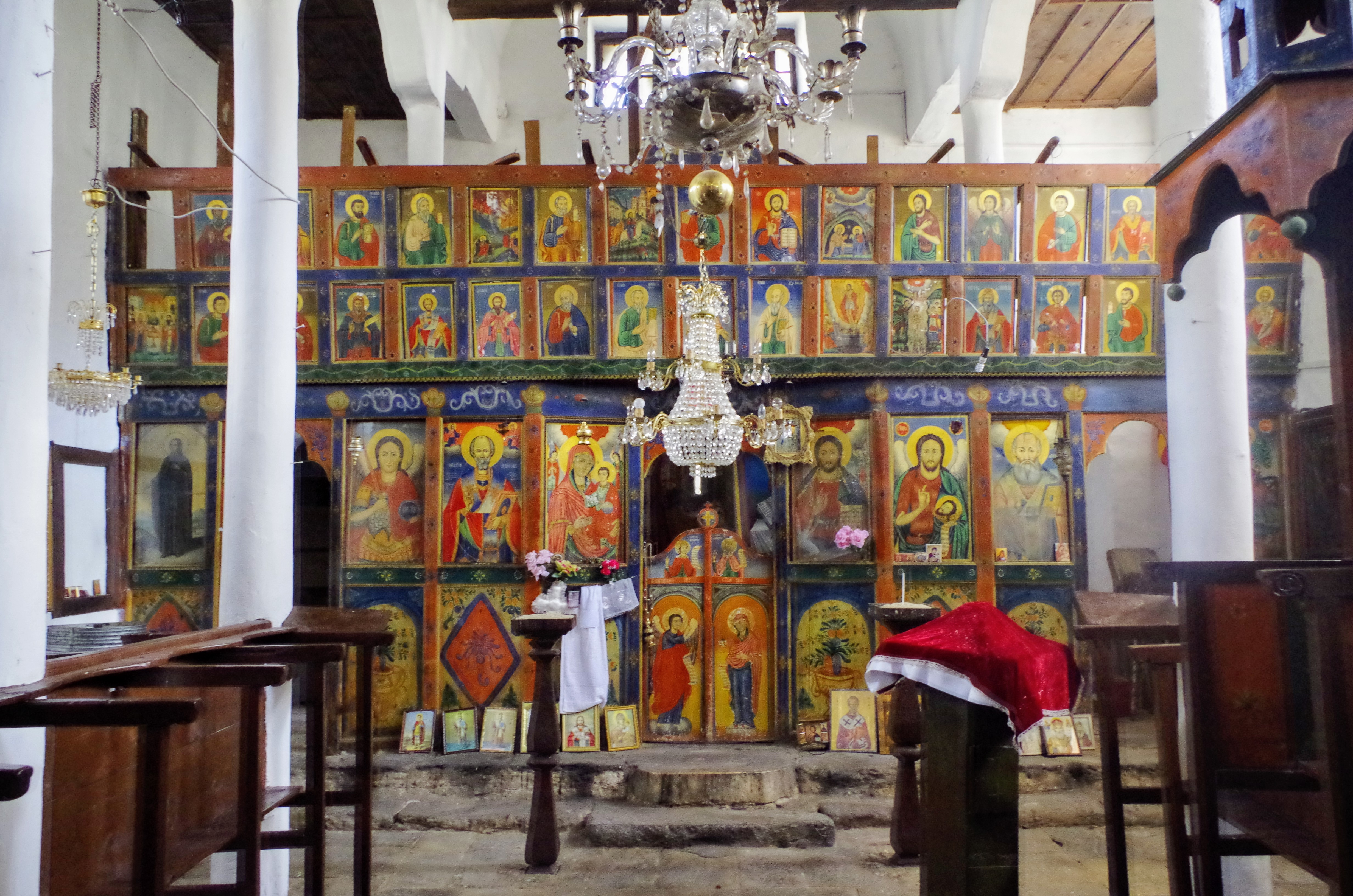 View of the St. Nicholas Church in the village Brajčino